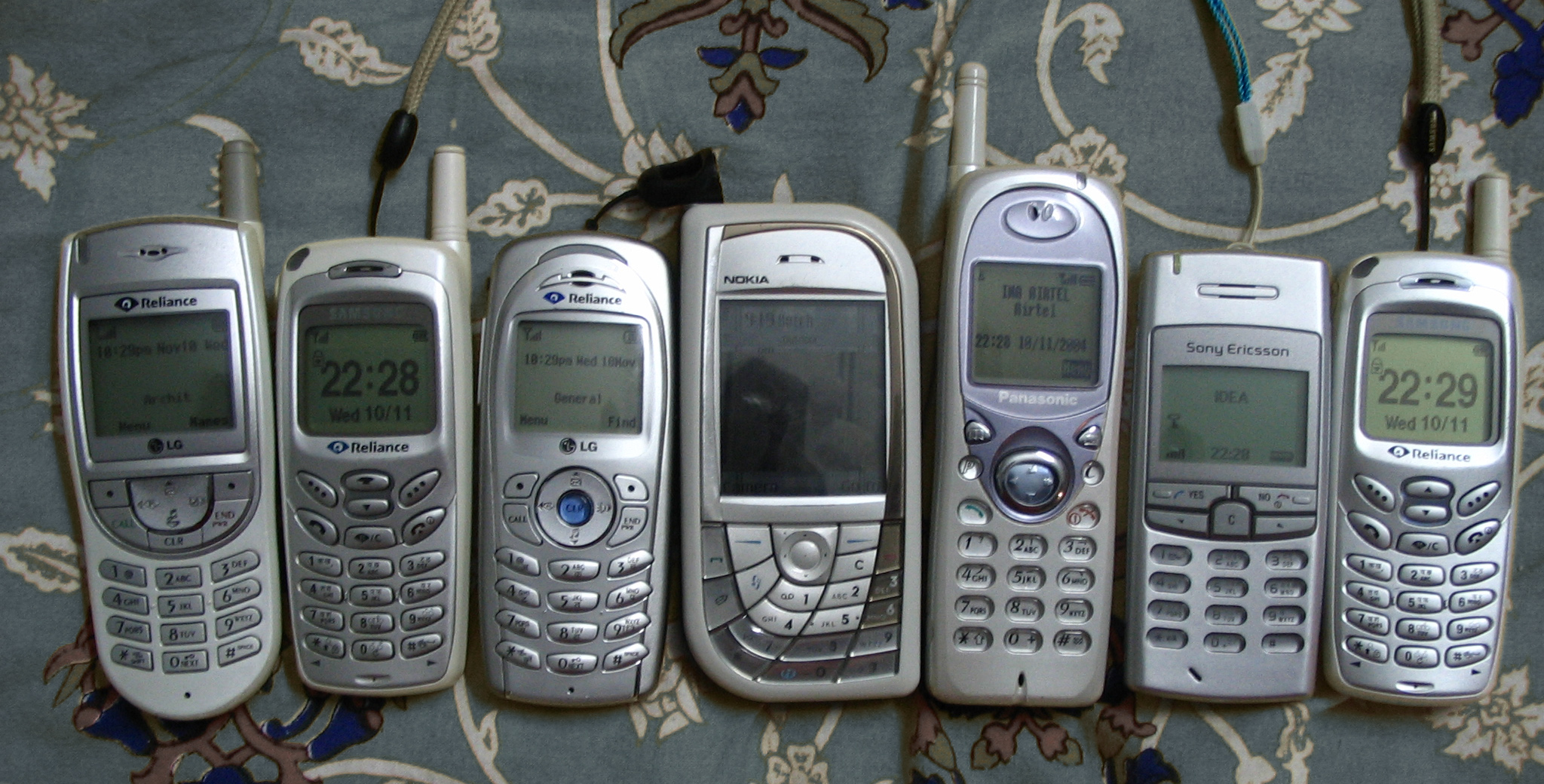 Several mobile phones